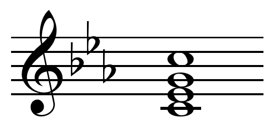 Minor chord on C